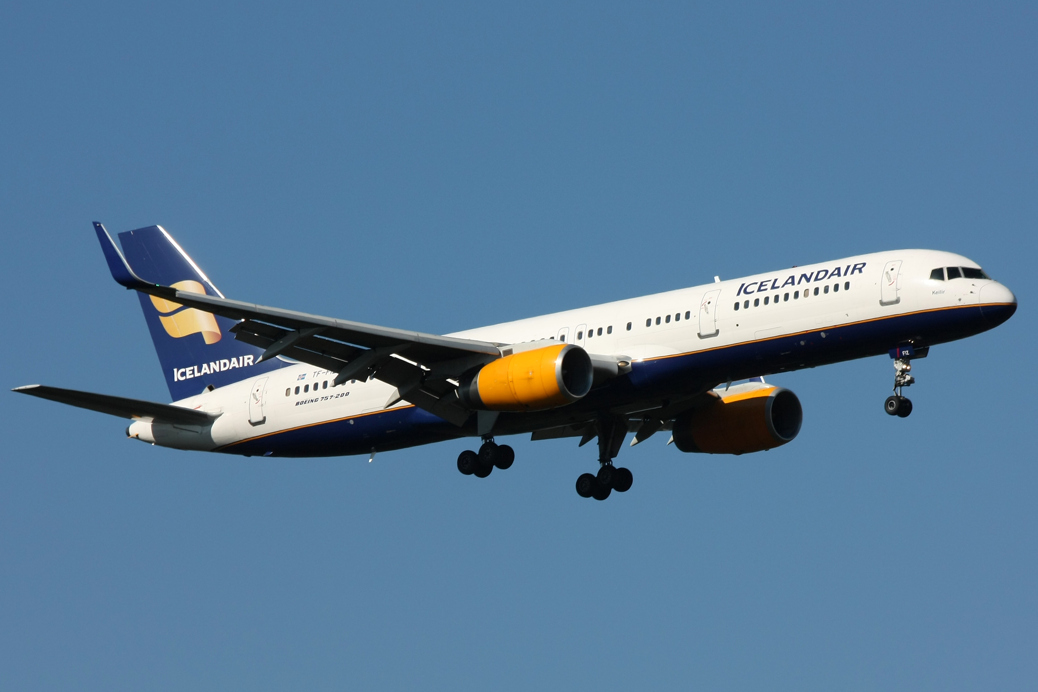 Icelandair Boeing 757-200 TF-FIZ is landing at Frankfurt Int'l Airport